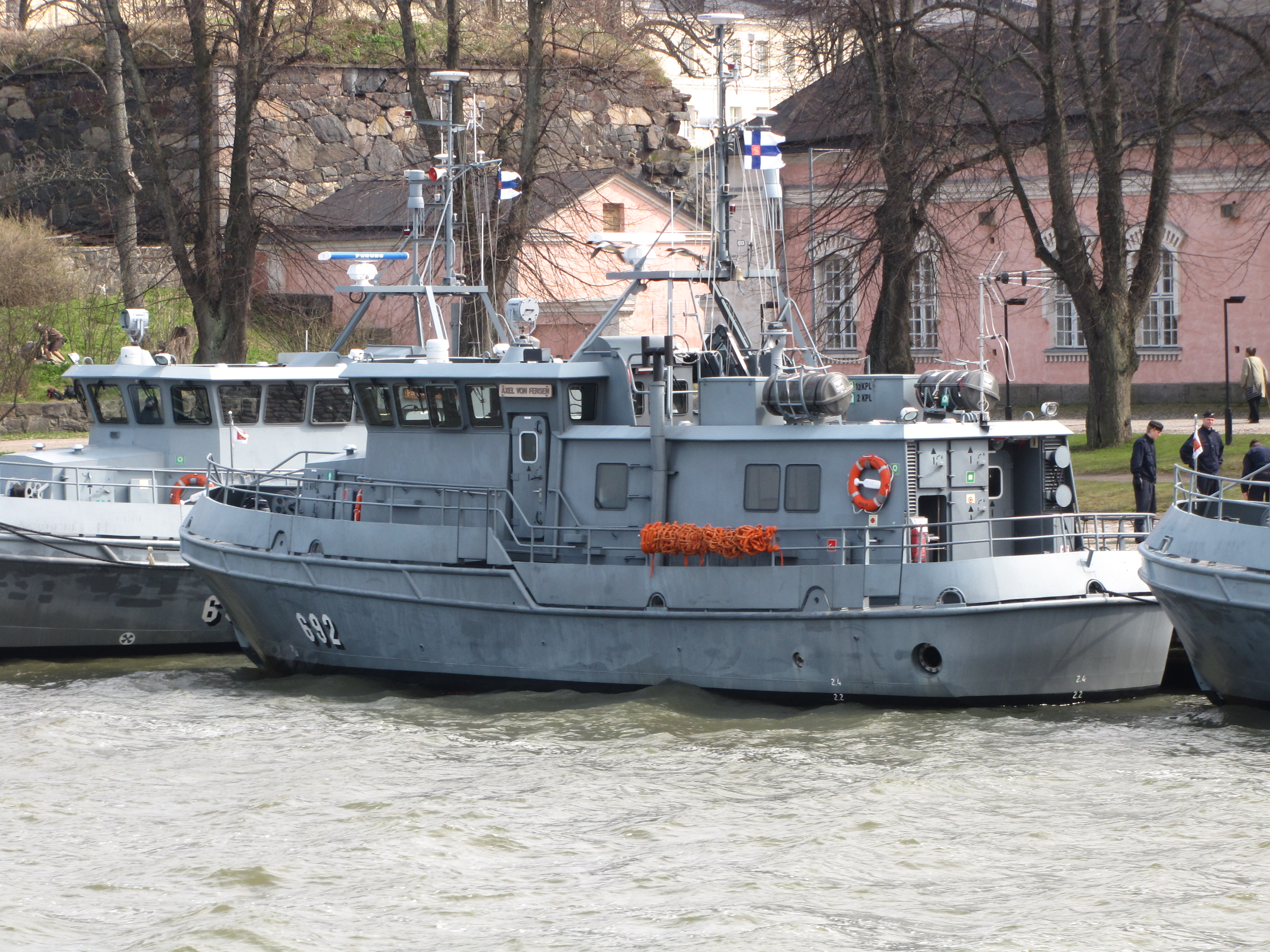 Finnish Navy training ship Axel von Fersen (692), with Fabian Wrede (690) in the background.